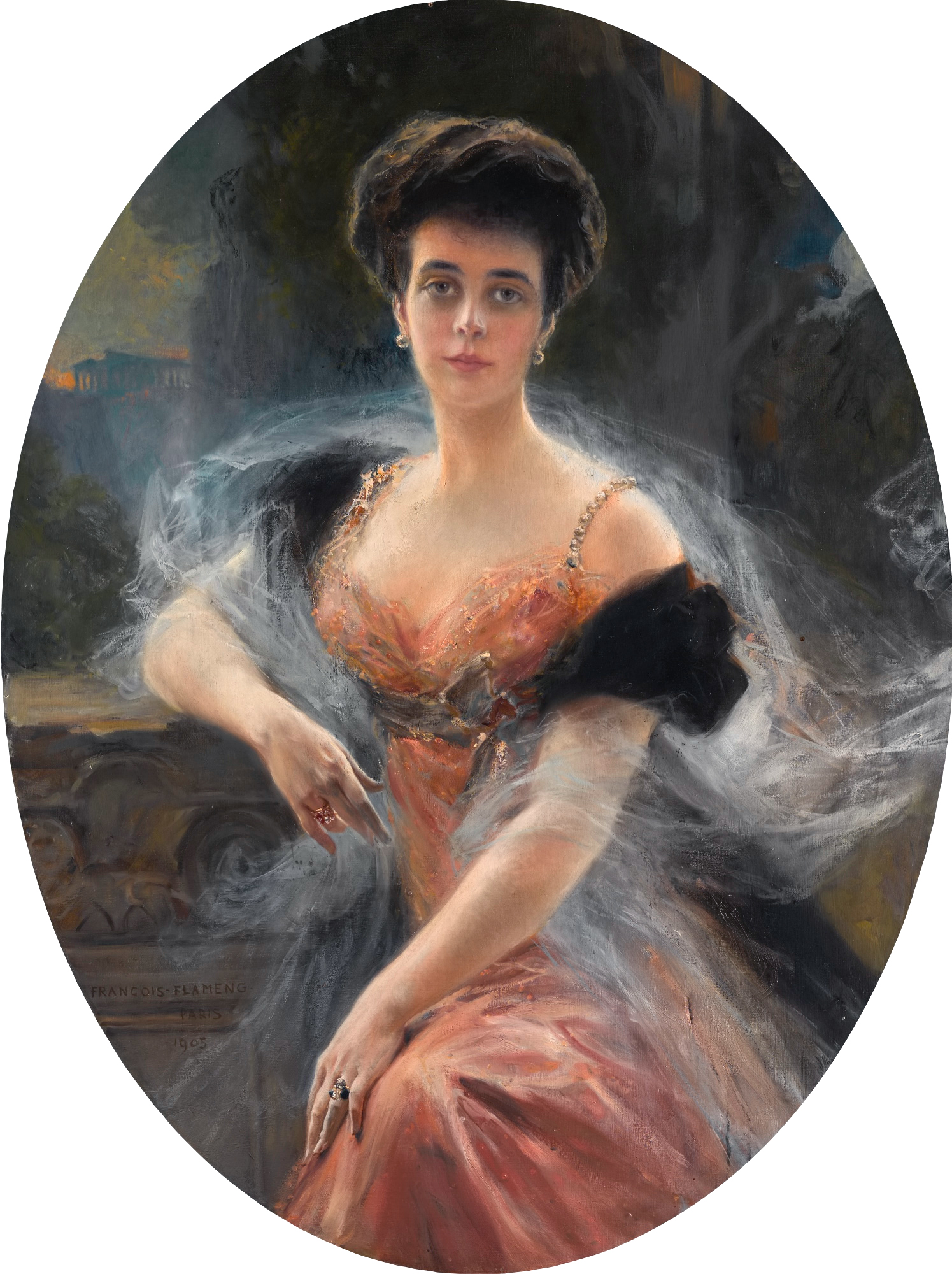 Grand Duchess Elena Vladimirovna of Russia oil on canvas 115.5 x 87 cm signed b.l.: FRANCOIS-FLAMENG inscribed b.l.: PARIS - 1905